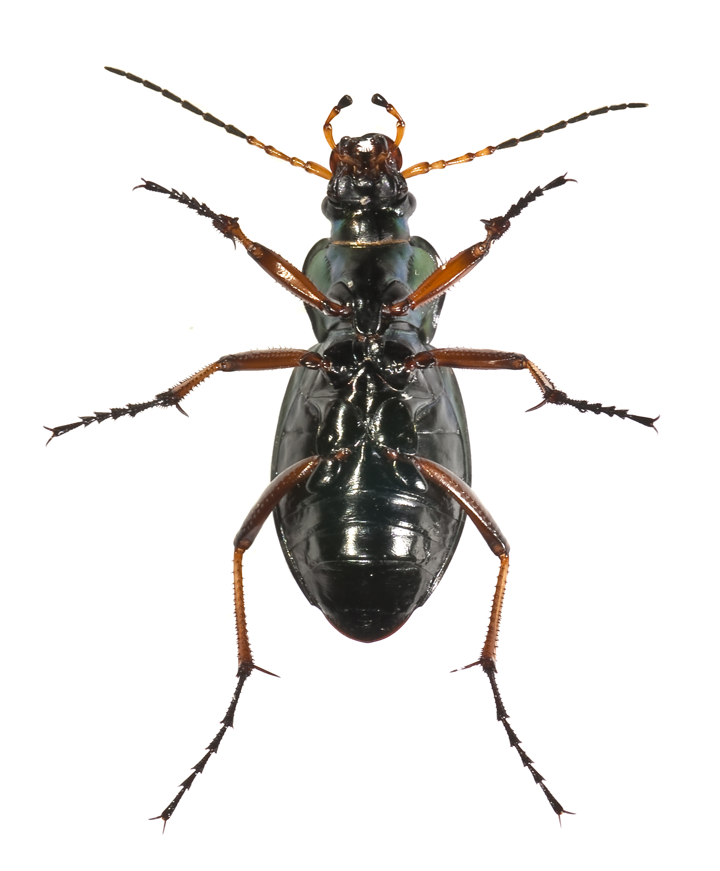 Carabus auratus (golden ground beetle) - Ventral side. France 3.7cm